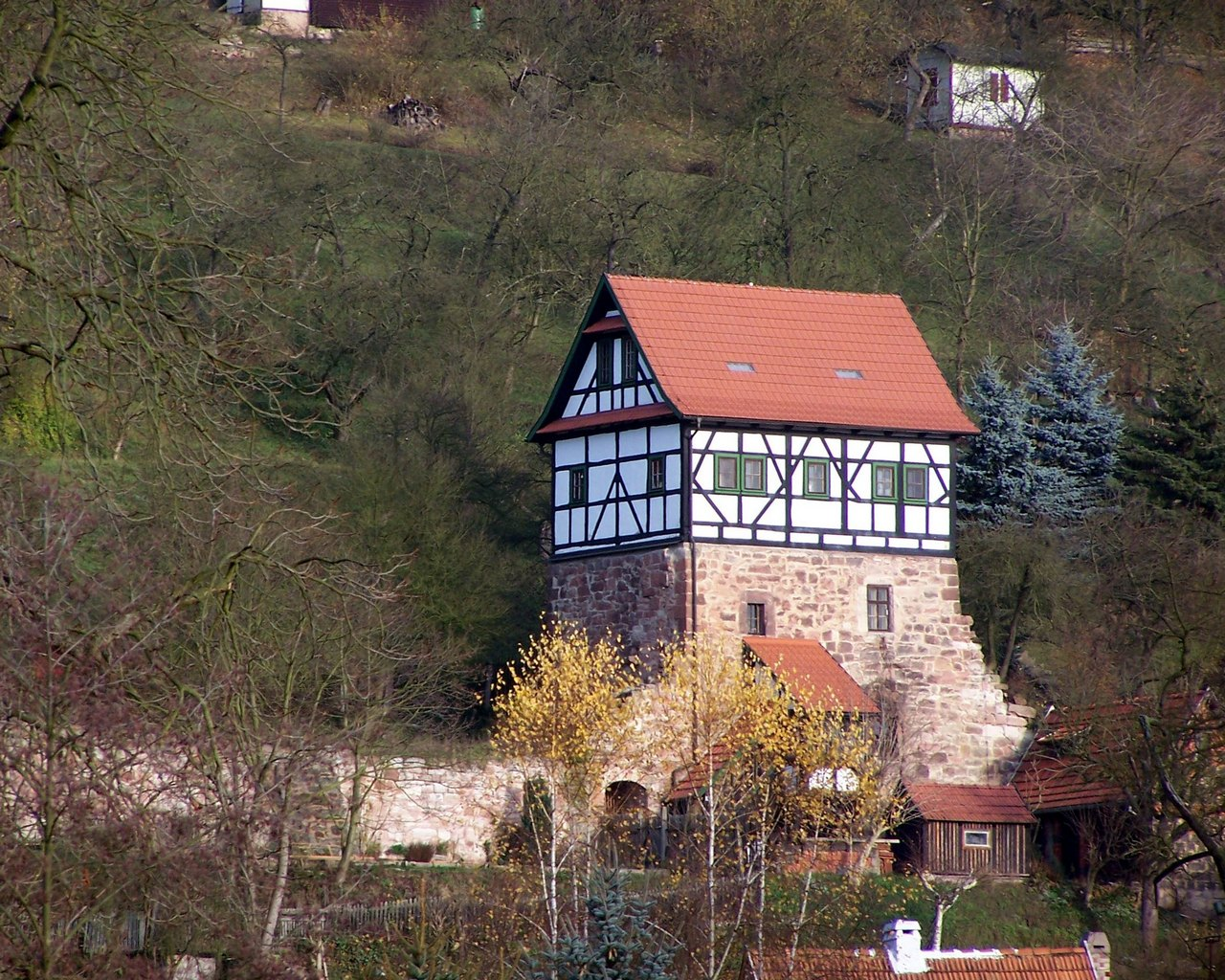 The so-called Pfaffenburg in Wasungen, Germany